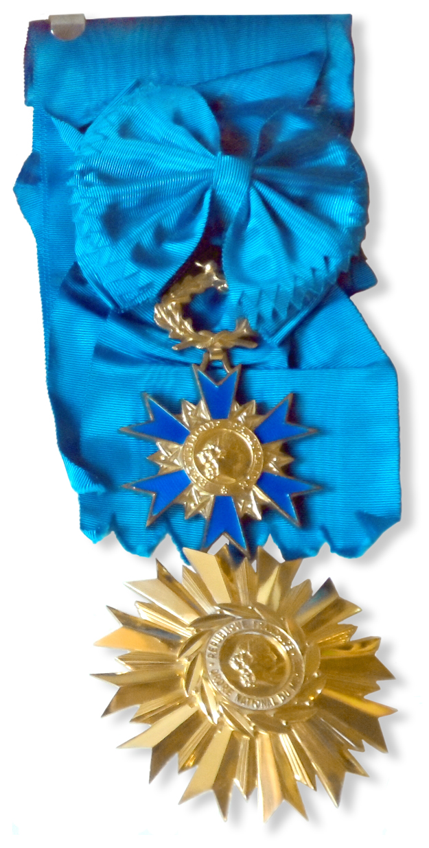 Star and riband of a Grand-Croix of the Ordre National du Mérite.